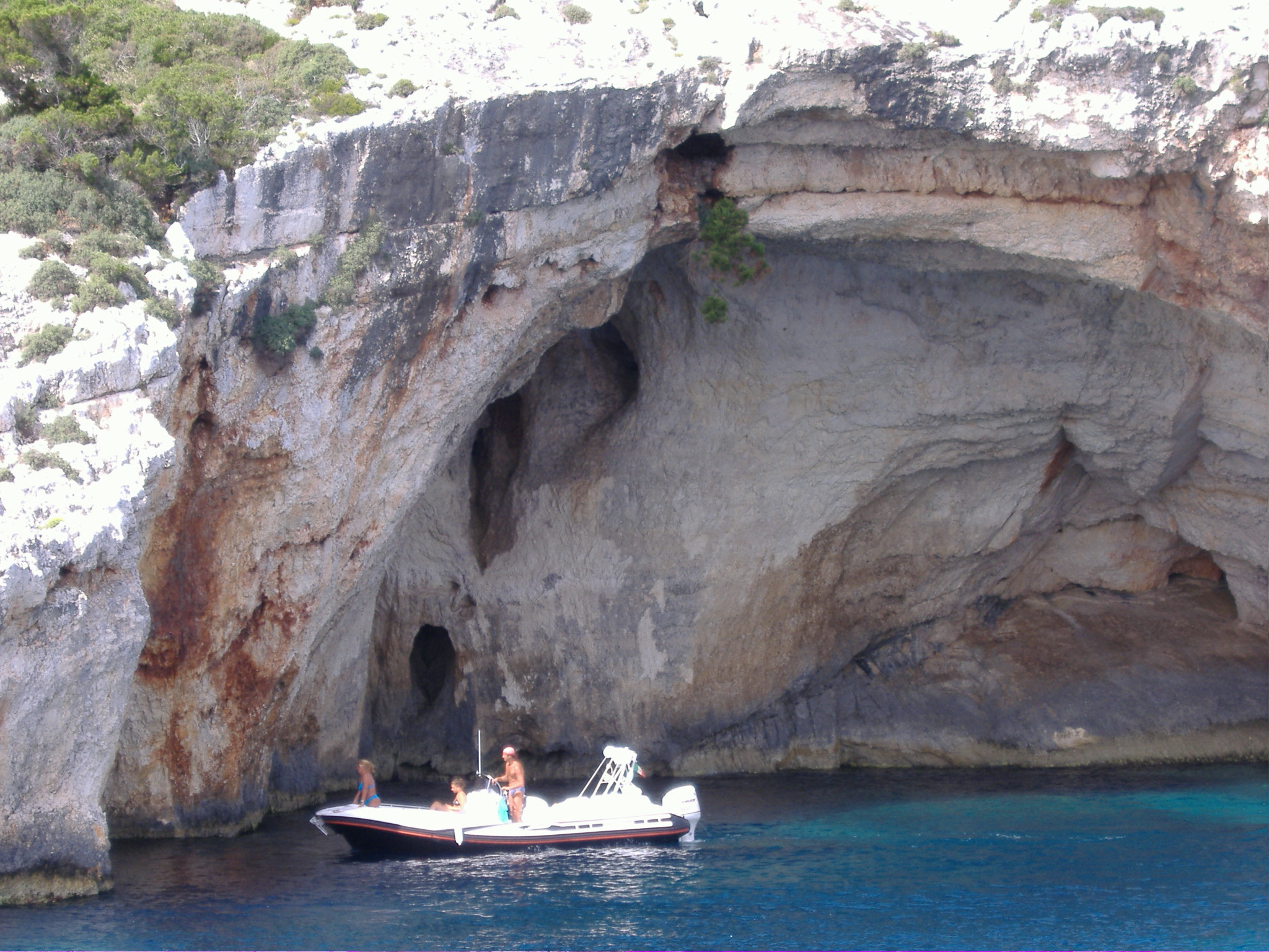 Blue Caves Zante